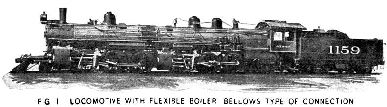 Flexible-boilered Mallet system steam locomotive